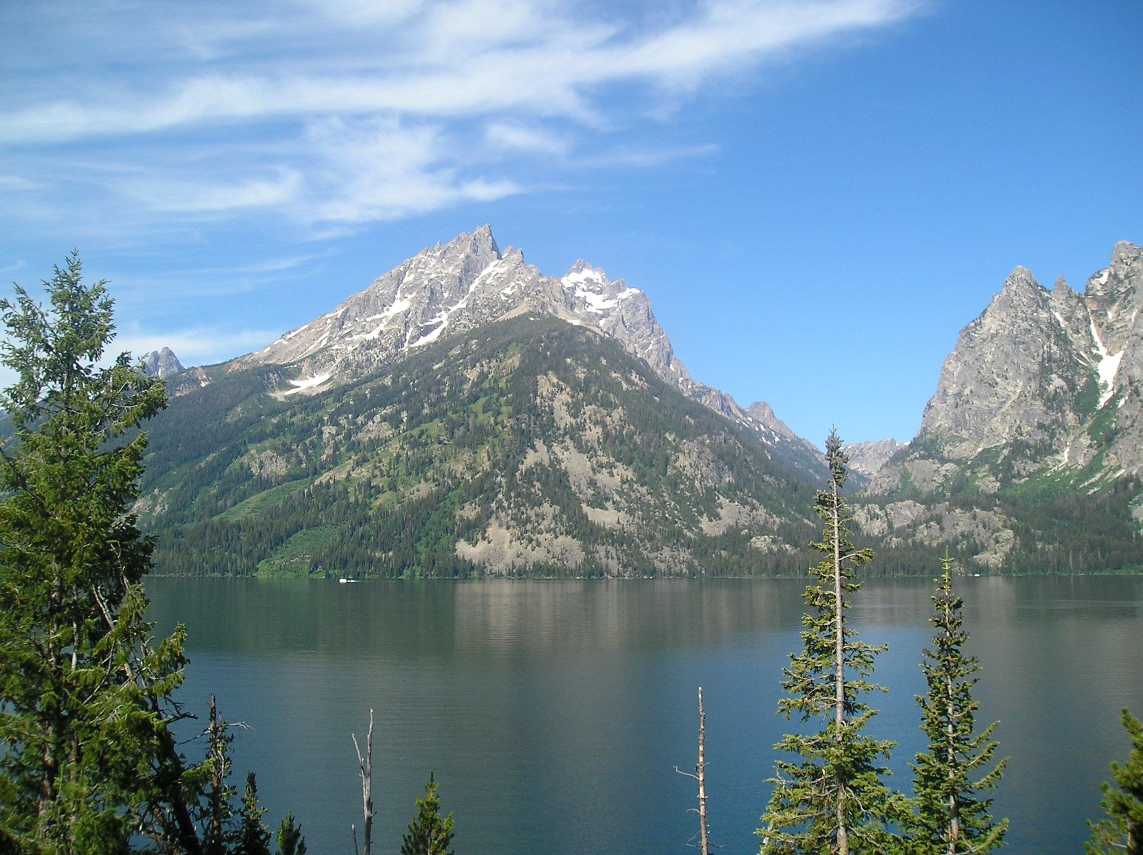 Teton Range and Jenny Lake, july 2006